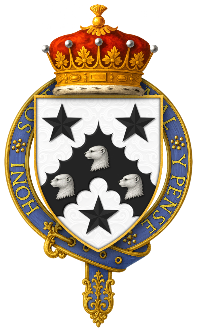 Shield of Arms of Arthur Balfour, 1st Earl of Balfour, KG, as displayed on his Order of the Garter stall plate in St. George's Chapel. ARMS: Argent on a chevron engrailed between three mullets sable, three otters' heads erased of the field.